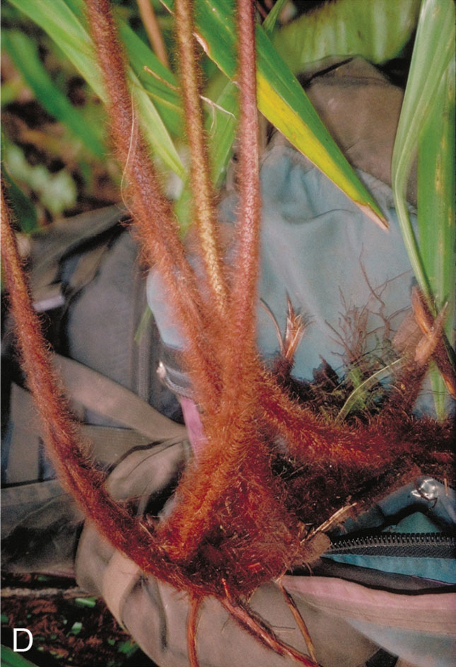 Rhizome and stipe bases (Hiva Oa, Wood 10871)